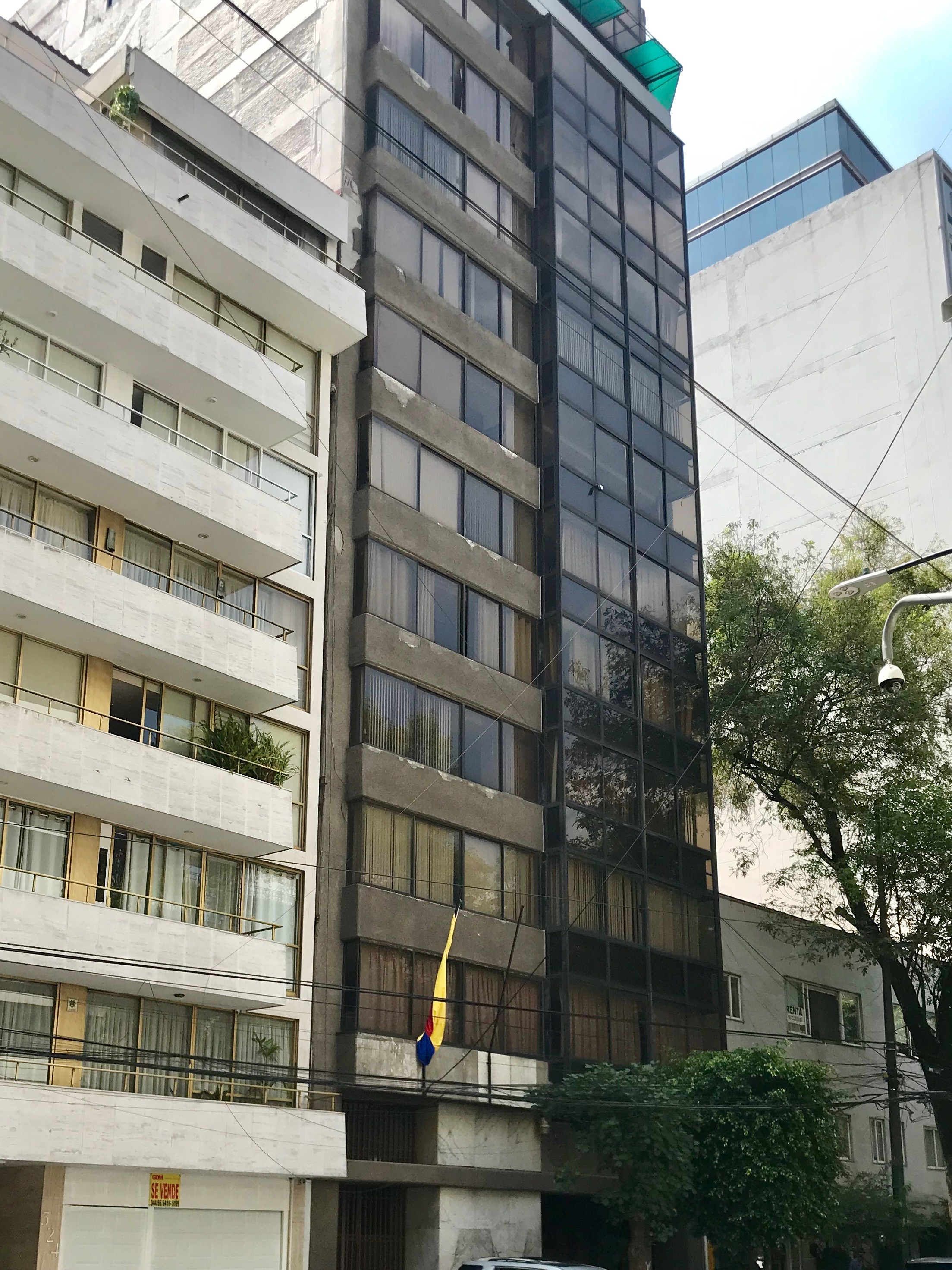 Embassy of Venezuela in Mexico City